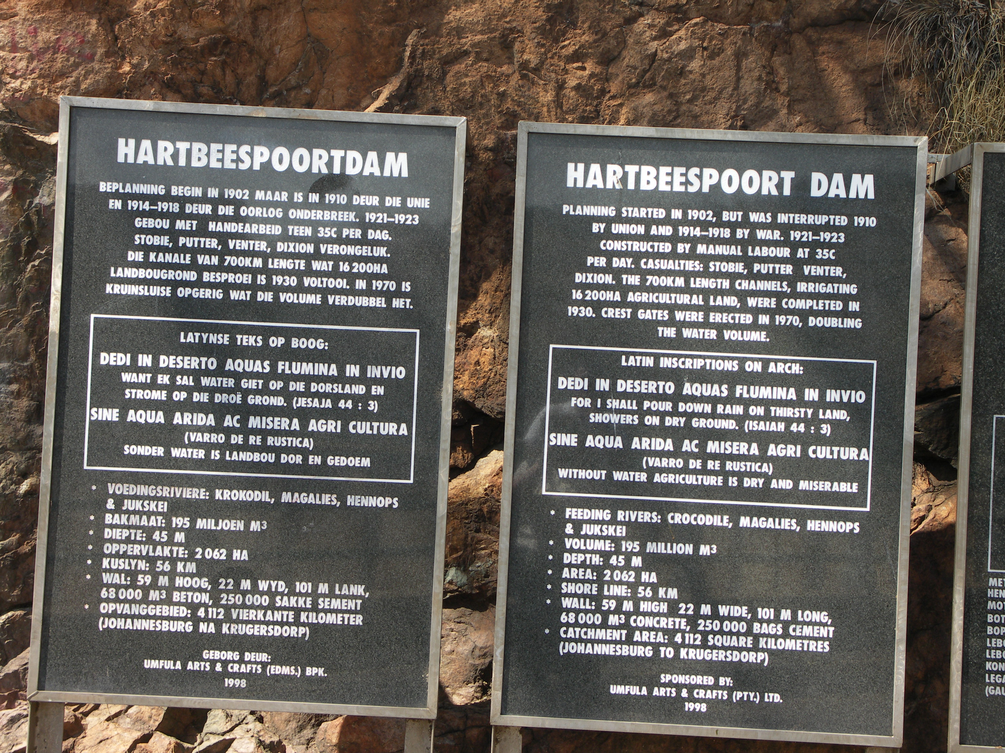 Signs at Hartbeespoort Dam